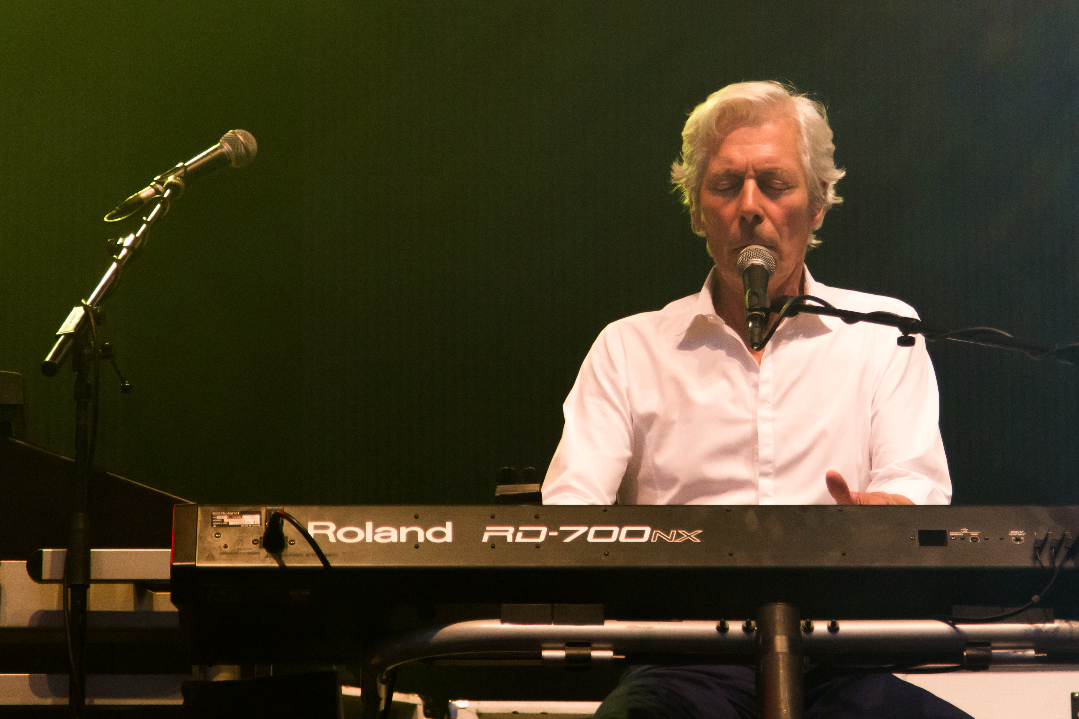 Andy Bown from Status Quo at the See-Rock Festival 2014